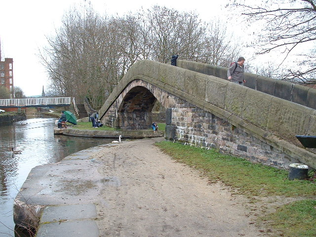 Supposed junction of the Peak Forest, Ashton and Huddersfield Narrow Canals. at the Portland Basin, officially all the water here is in the Ashton Canal.